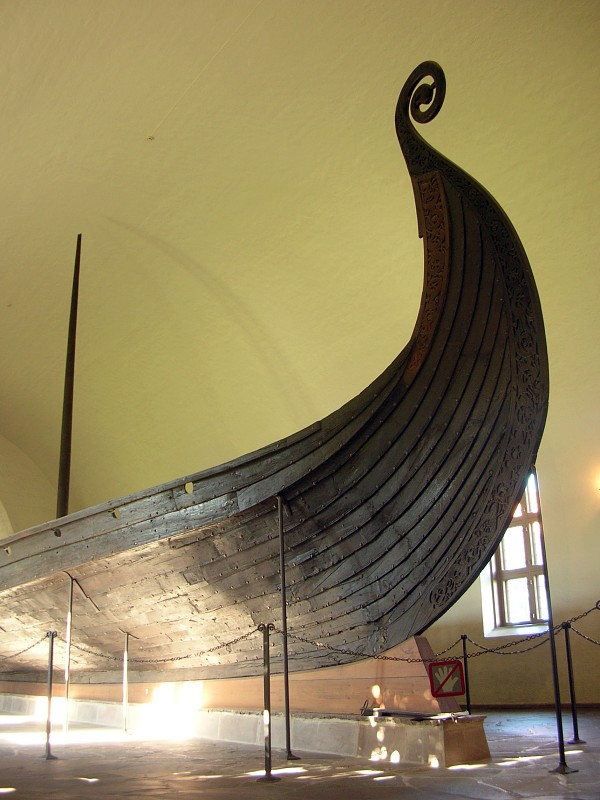 Exhibition in Viking Ship Museum in Oslo